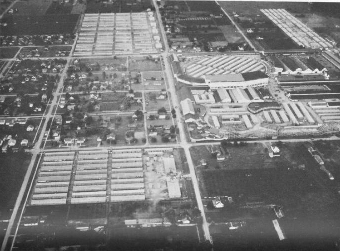 This is an aerial photo of the Puyallup Assembly Center.